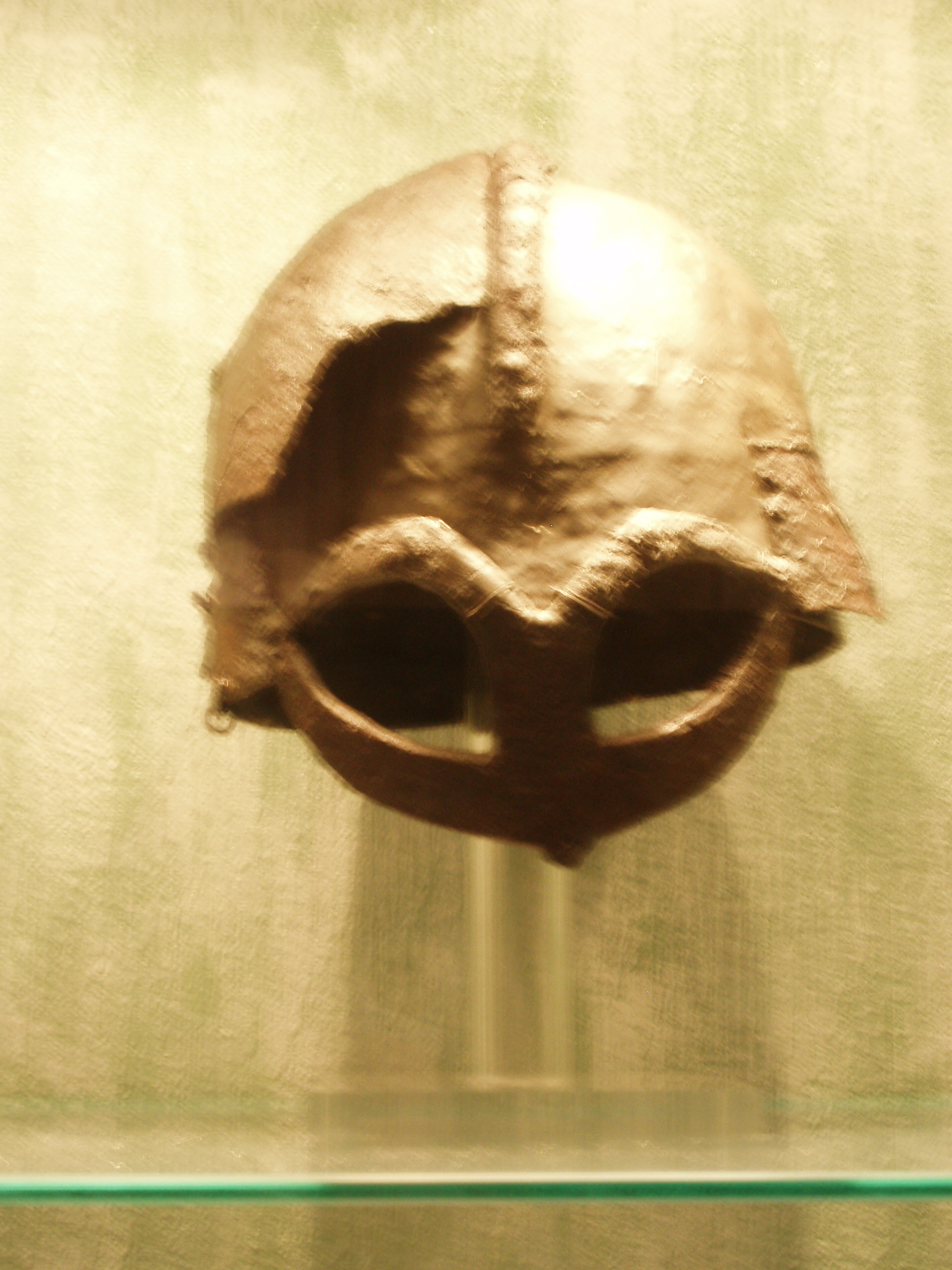 A Viking age helmet on display in the Museum of Cultural History in Oslo, Norway. Bad quality, upload a sharper picture if you have one.